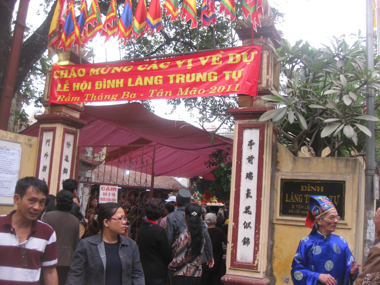 Common House in Trung Tu - Dong Da - Hanoi